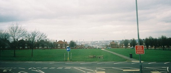 Belle Isle Circus, Leeds